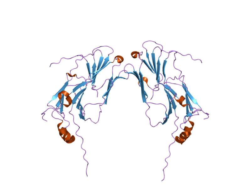 Cartoon representation of the molecular structure of protein registered with 1gme code.